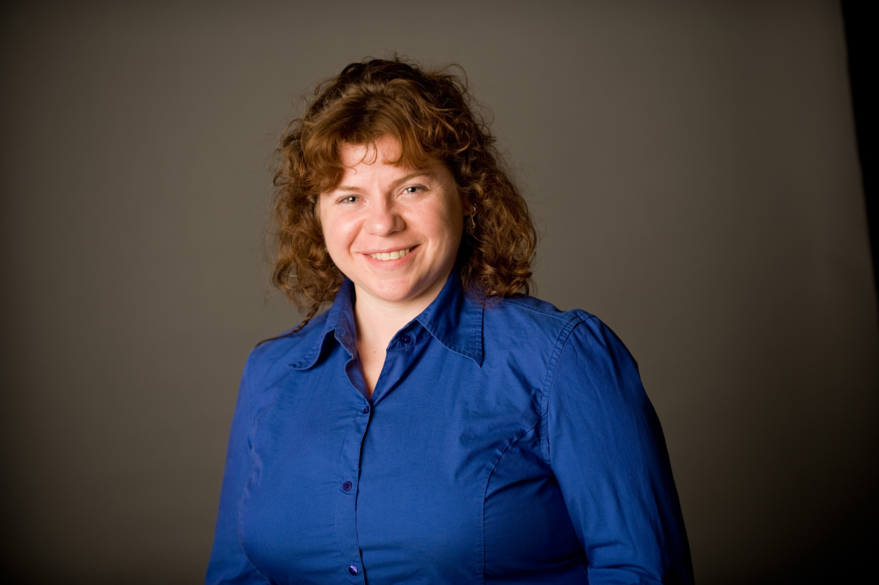 American planetary scientist Barbara Cohen featured as part of "Faces of Marshall", Marshall Space Flight Center in 2010.